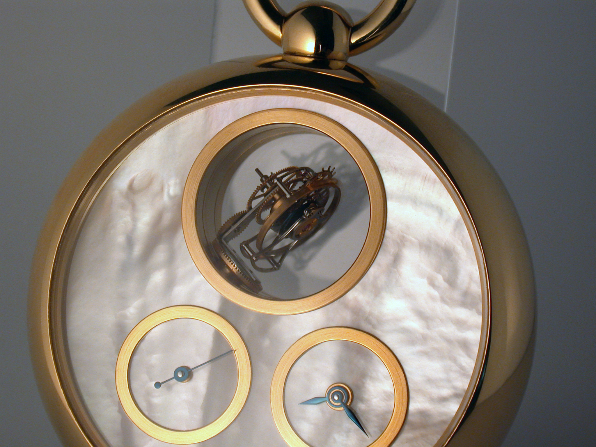 Double Axis Tourbillon pocketwatch cutting out. Direct view of a Double Axis Tourbillon of Thomas Prescher